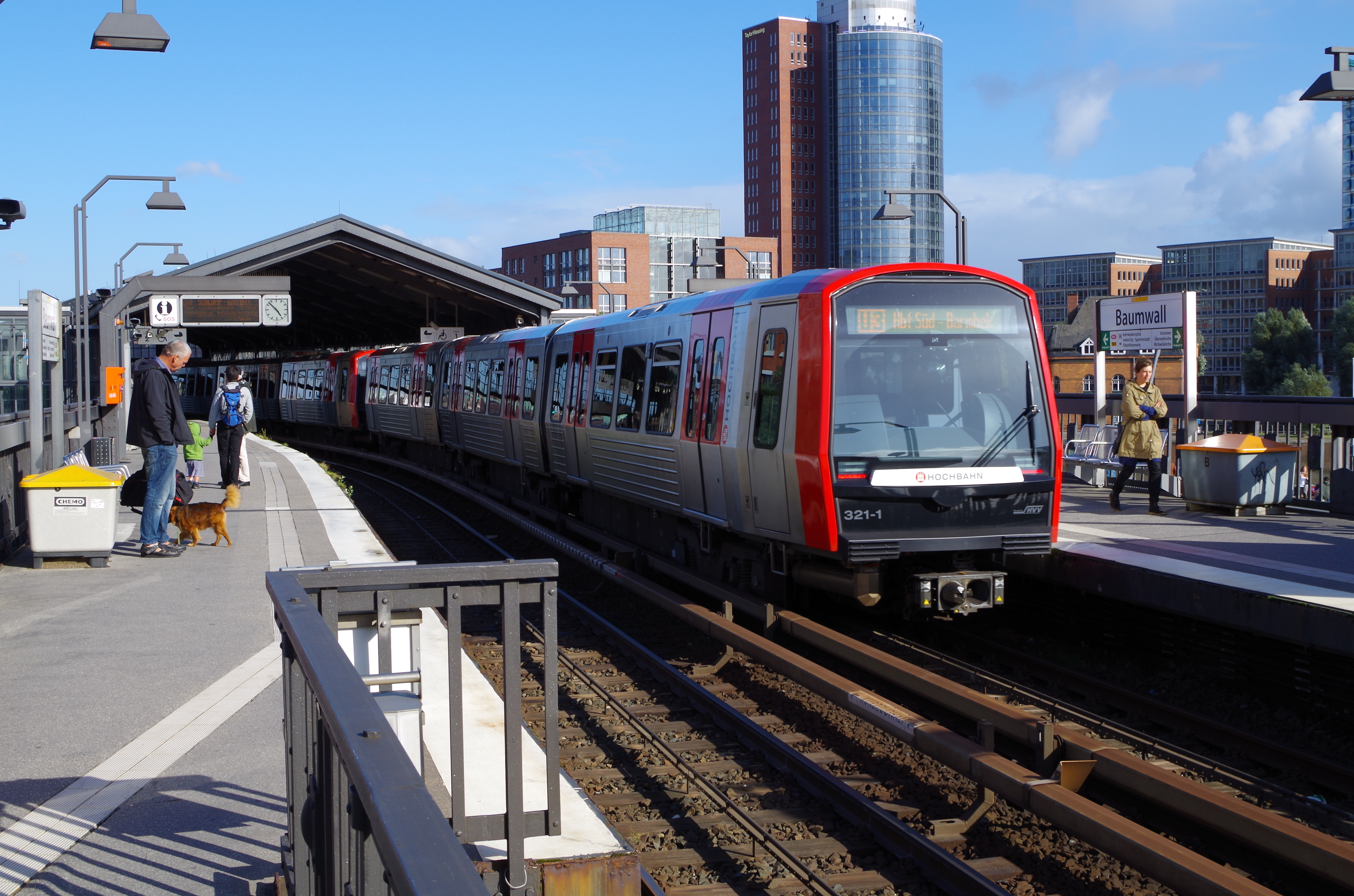 A new DT5 train with six wagons towards Hauptbahnhof-Süd stands in the station Baumwall.